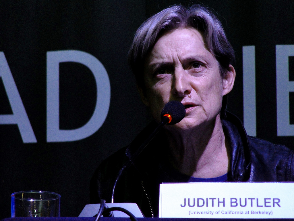 Judith Butler I